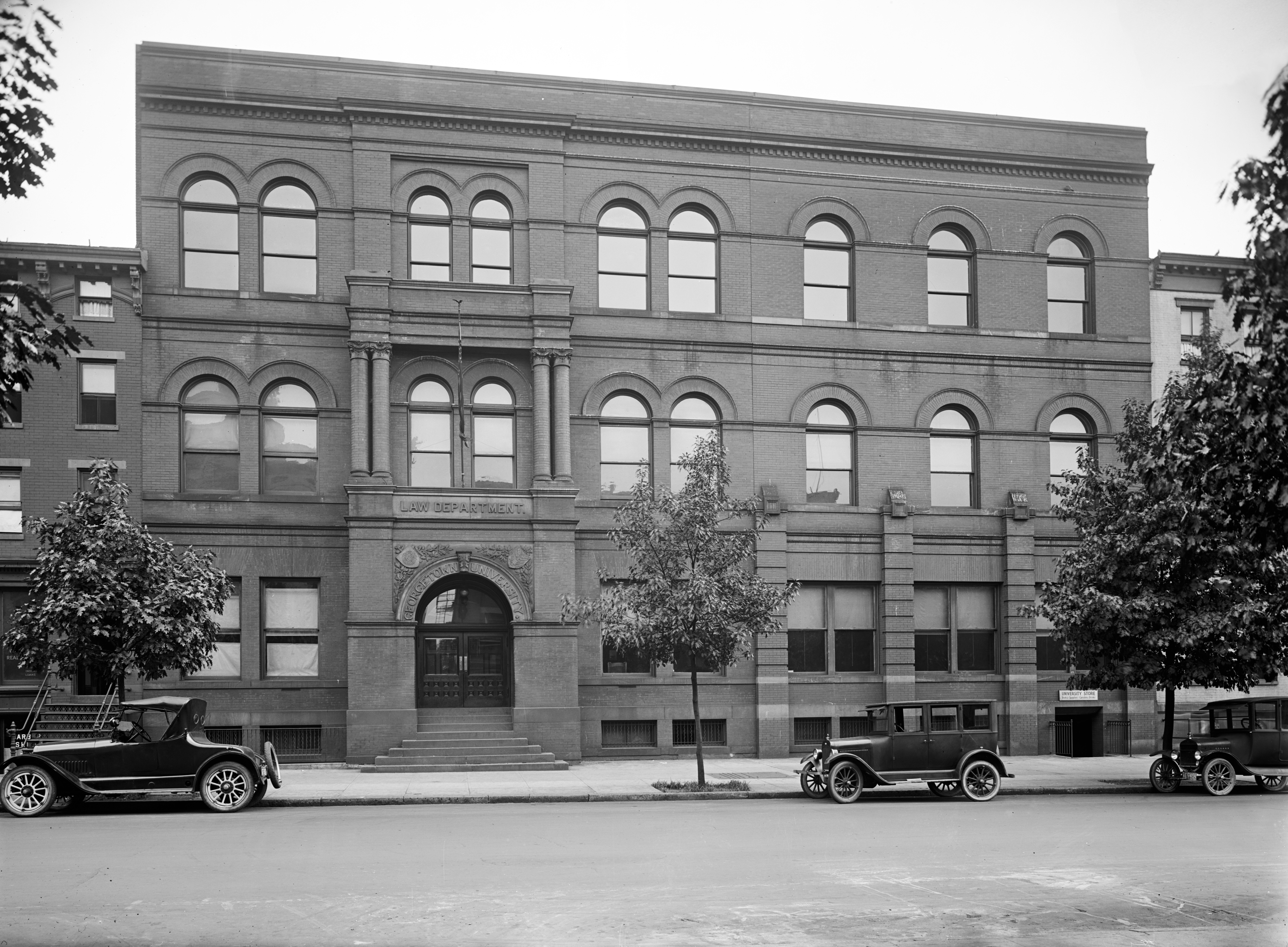 Georgetown Law at 506 E Street, N.W., Washington, D.C.